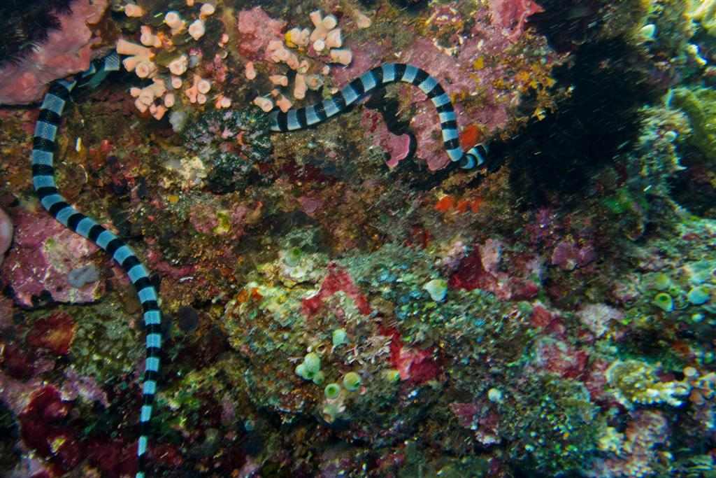 Sea Snake